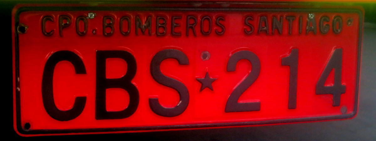 Chilean registration plate: fire fighters (14 Compañía De Bomberos, Santiago)